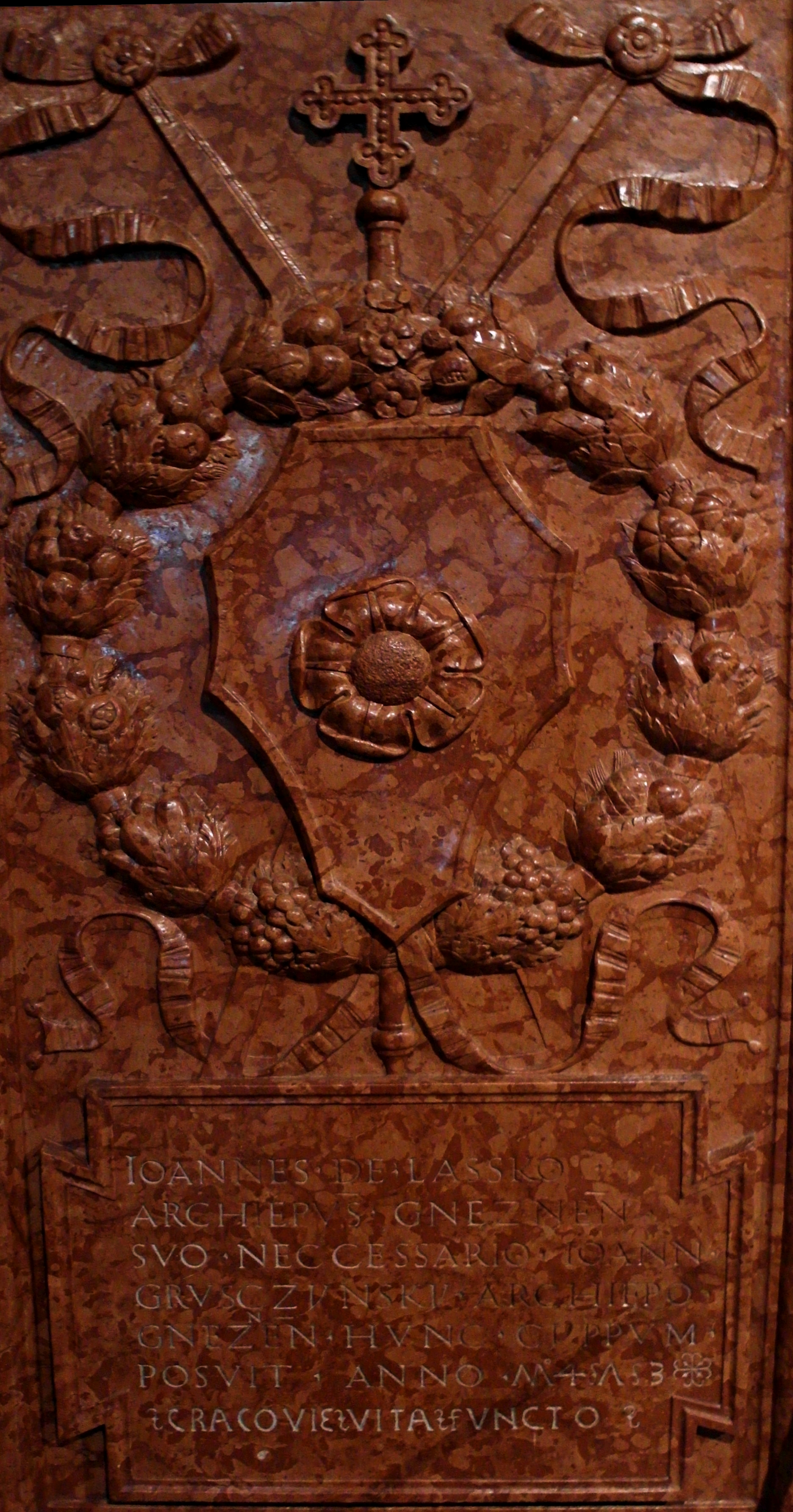 Tombstone of Jan Gruszczyński by Joannes Fiorentinus, after 1516, Gniezno Cathedral